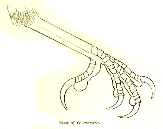 Foot of Pyrrhocorax pyrrhocorax eremita (Indian race)